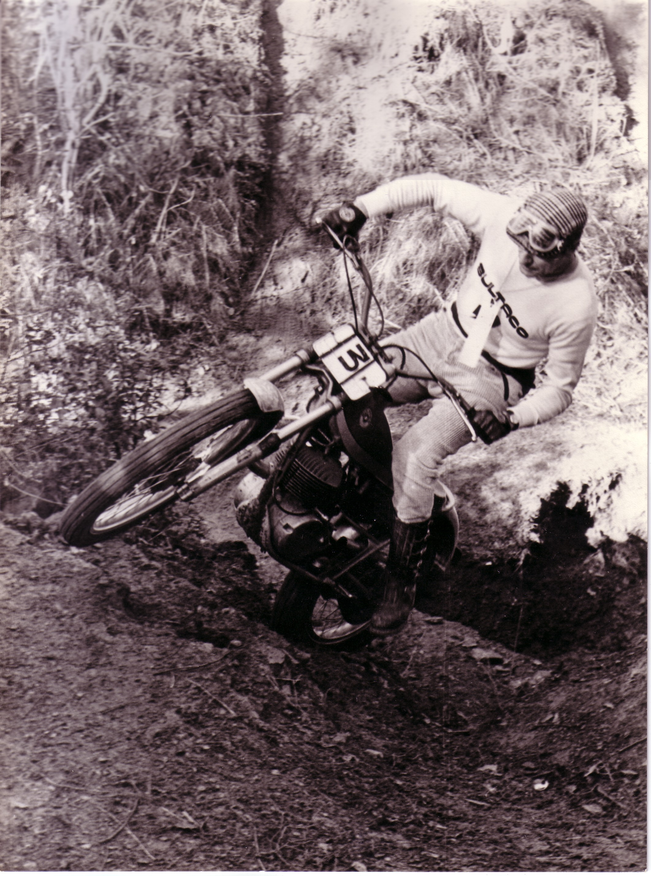 Oriol Puig Bultó on the Bultaco Sherpa T during the 1971 Trial de Reis, held on January 10 in Barcelona, near La Guineueta